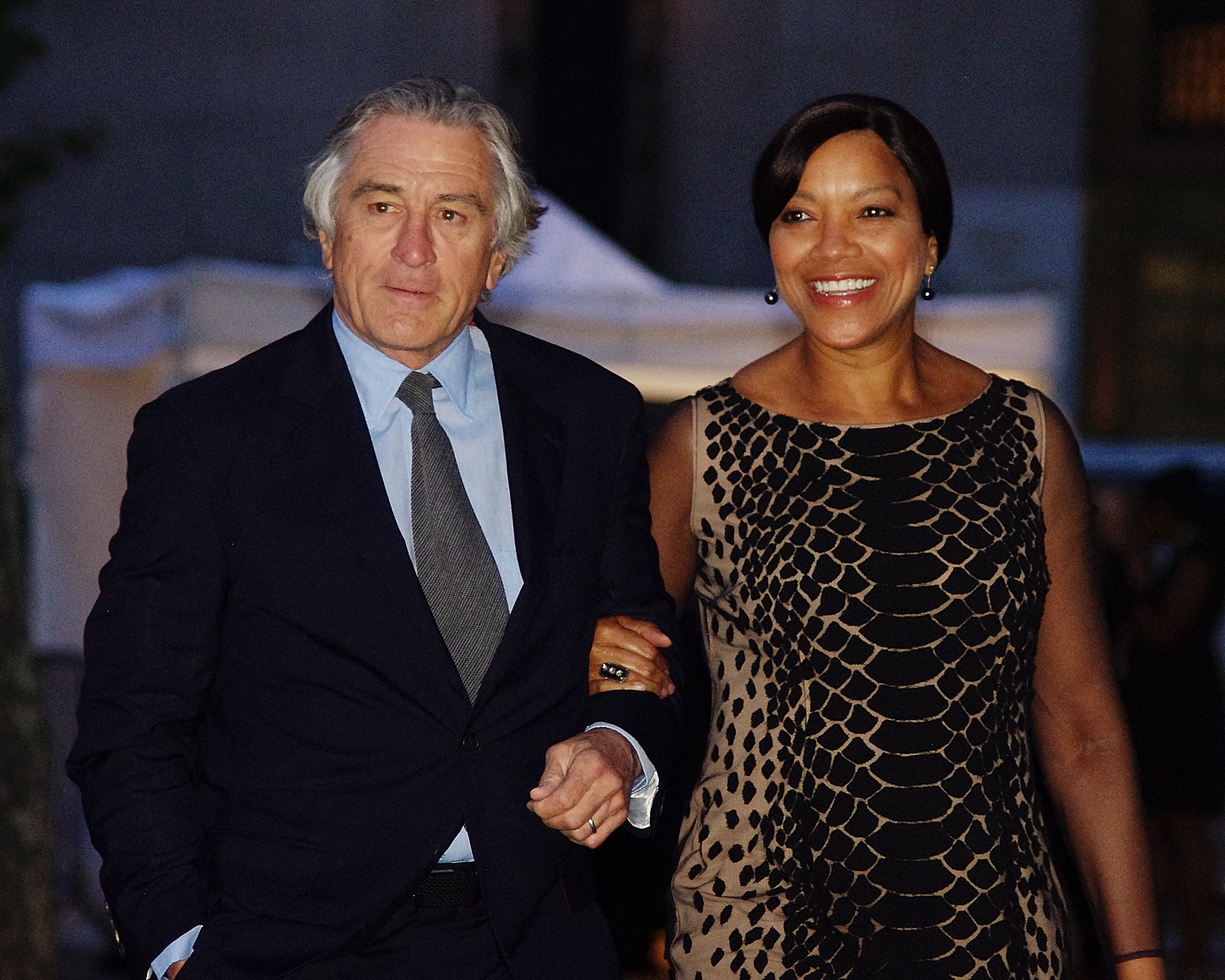 Robert De Niro and Grace Hightower at the Vanity Fair party for the 2012 Tribeca Film Festival.